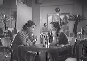 Setsuko Hara and Reiko Mizukami in 1939 Japanese movie Tokyo no Jyosei(The Woman of Tokyo).